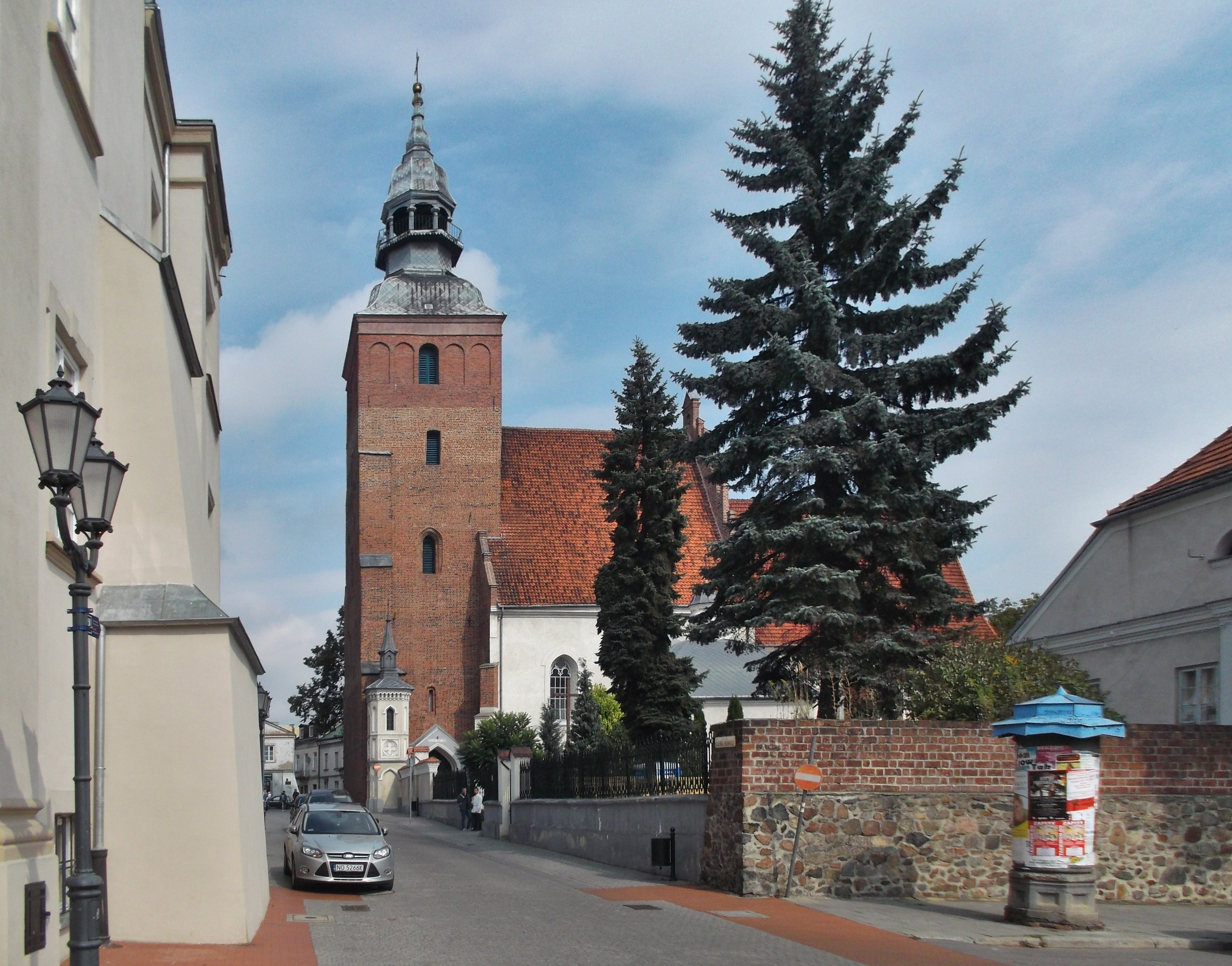 Saint James church in Piotrków Trybunalski (Poland) Wikidata has entry Q11746254 with data related to this item.